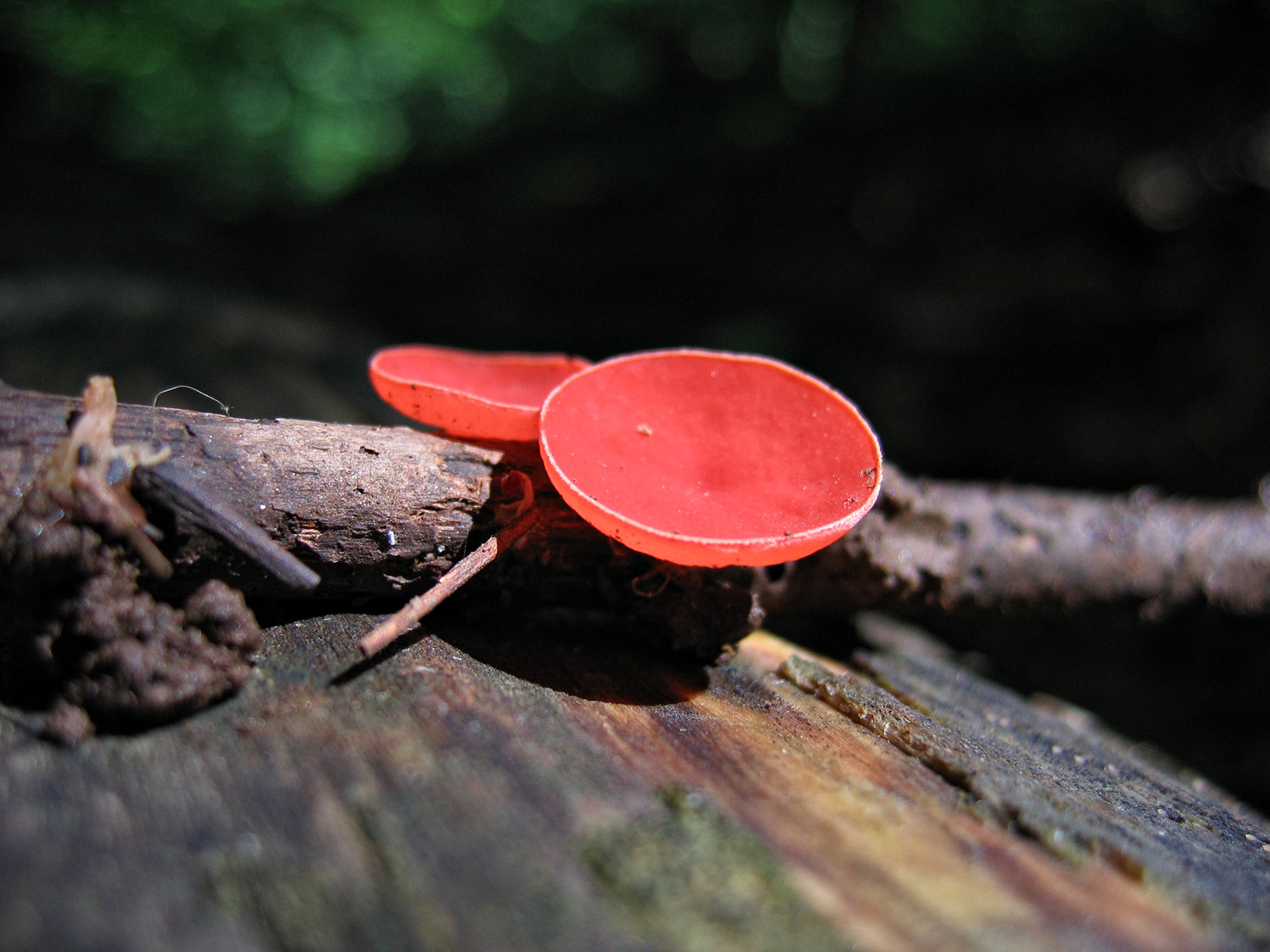 Sarcoscypha occidentalis (45258)